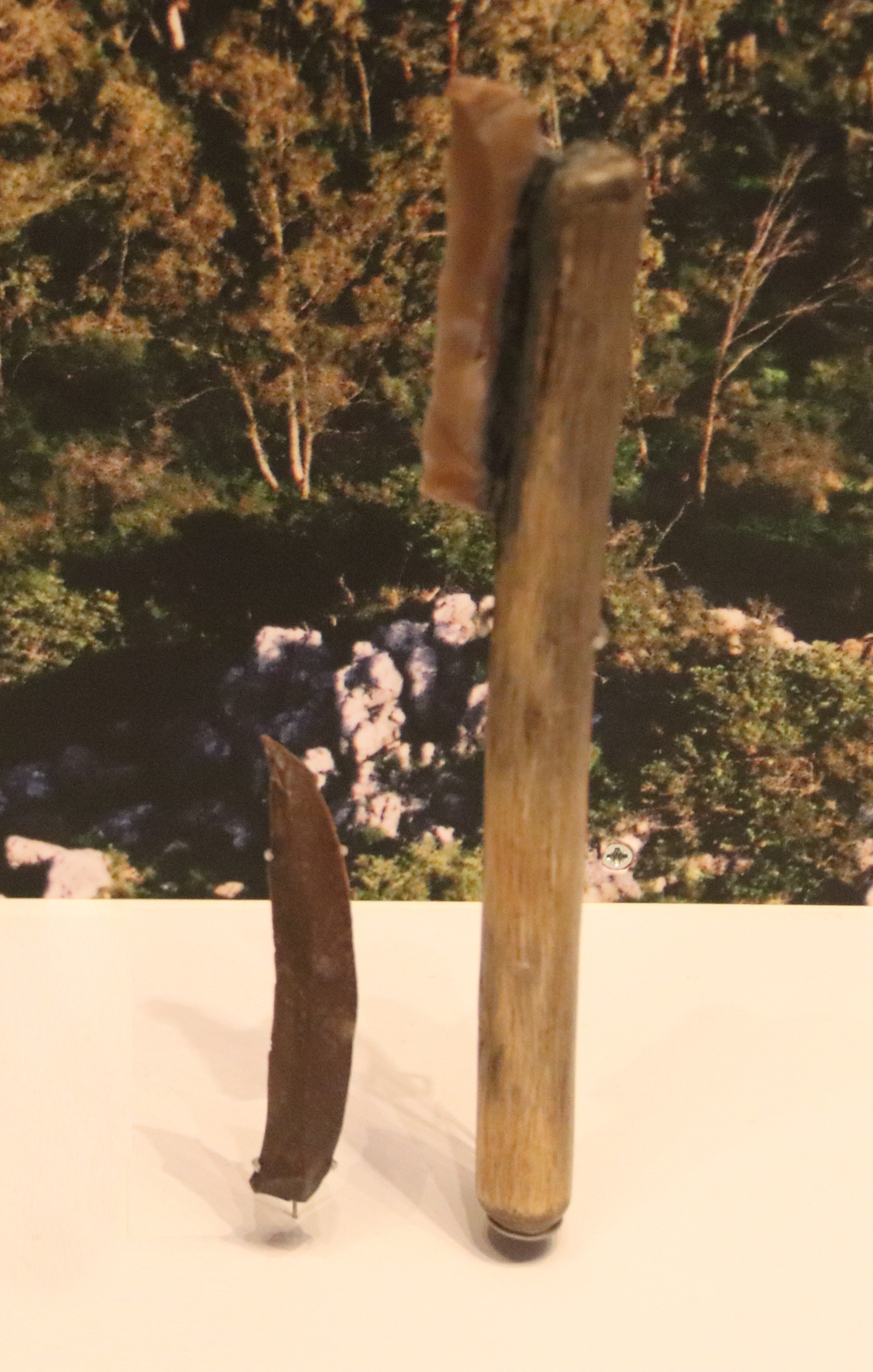 Flint Knives, Ahmarian Culture, Nahal Boqer, 47000-40000 BP (detail)